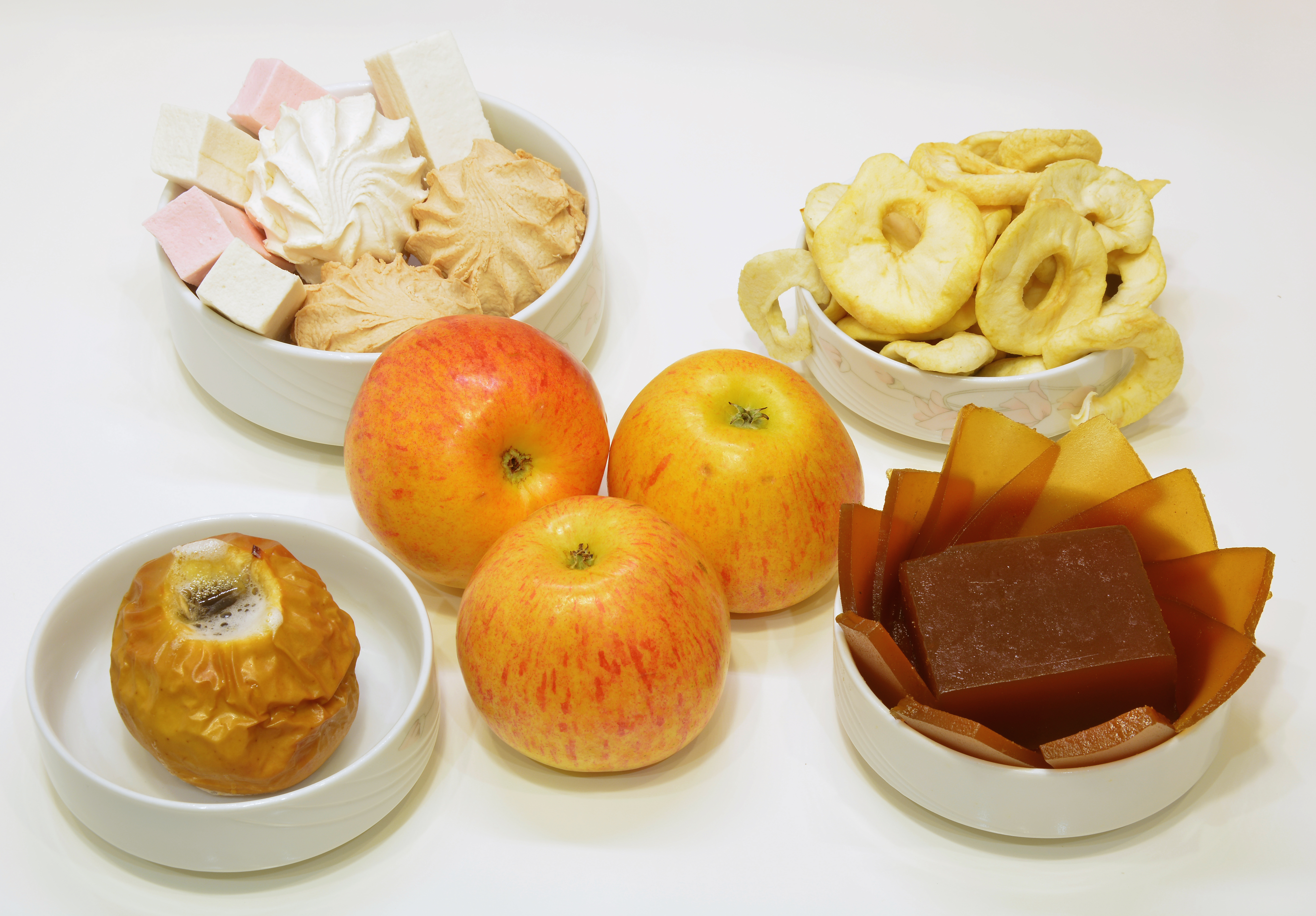 Delicious foods made from apples that are popular in Russia. Baked apple with honey and dried plums; apple marmalade; dried apples; zefir and pastila of different varieties (pastila vanilla and with addition of cranberries; zefir vanilla and creme brulee). Pastila and zefir are made from apple puree. This is a popular sweetness in Russia.